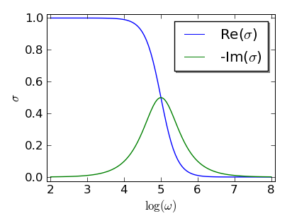 An illustrative graph of the complex conductivity with log(frequency) on the x-axis